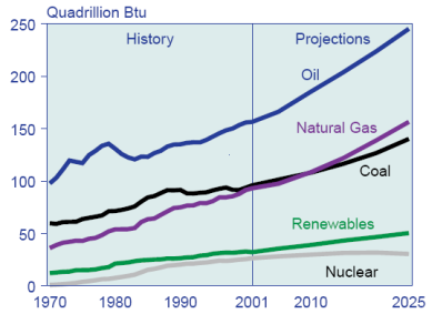 Figure shows world energy consumption by fuel types (Oil, Natural Gas, Coal, Renewable energy, Nuclear). Data up to 2001 is historical; data from 2001 to 2025 is projection. The figure is based on data, published in "The International Energy Outlook", by U.S. Energy Information Administration.